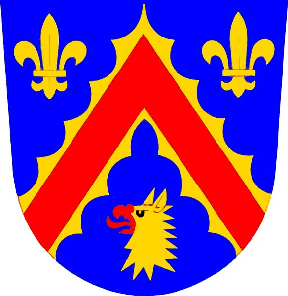 Municipal coat of arms of Bozkov village, Semily District, Czech Republic.